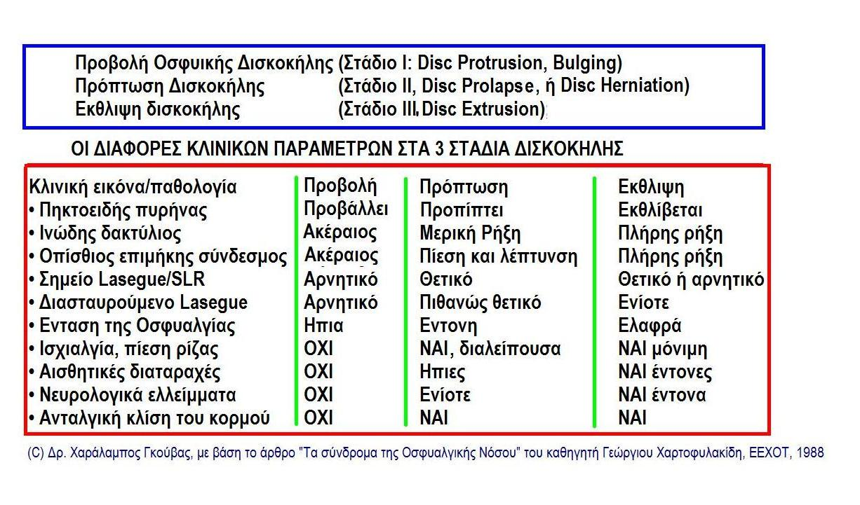 Disc herniation three levels